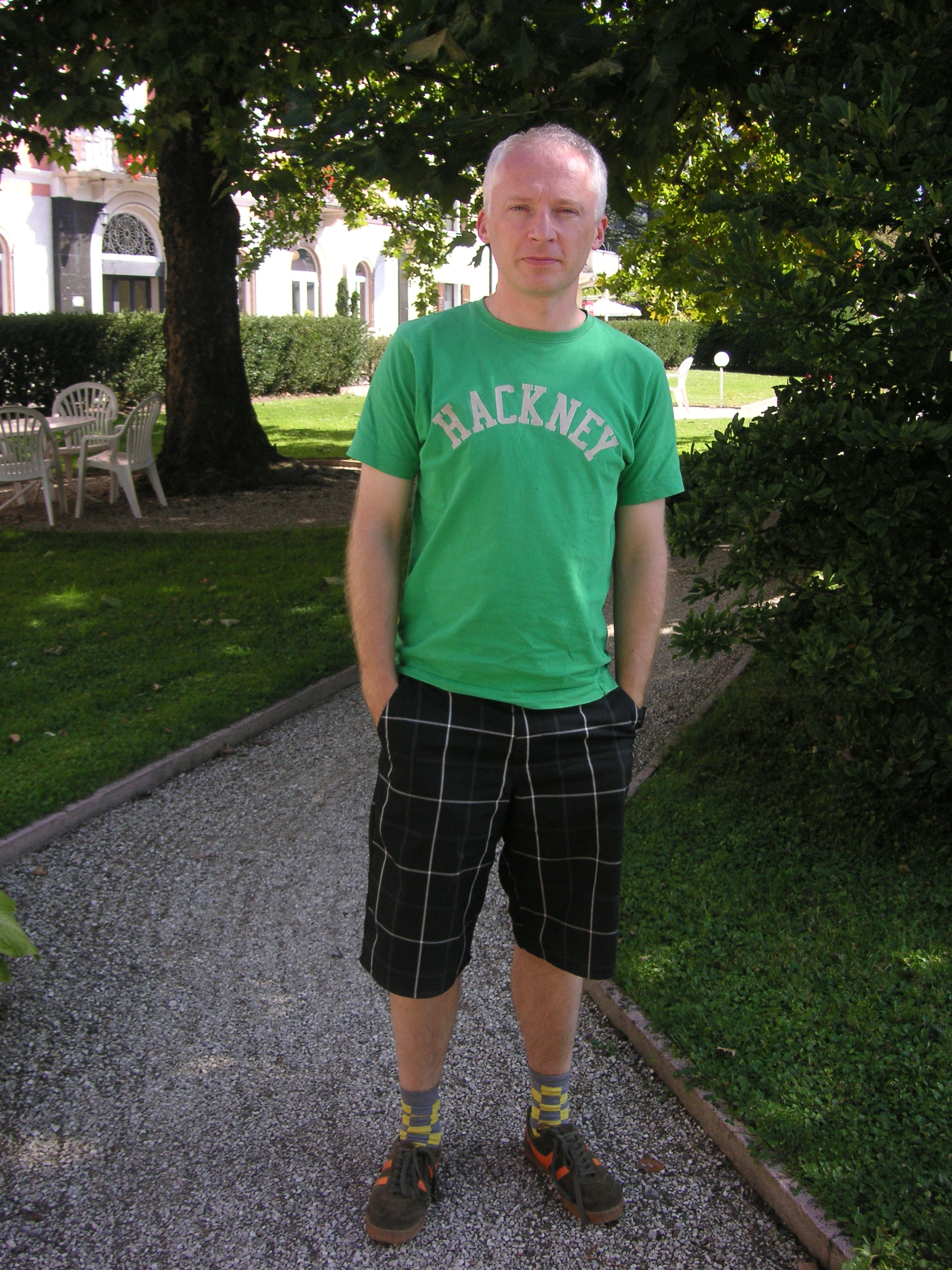 Marcus du Sautoy in Levico Terme